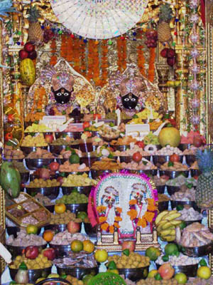 Thaal offered to Nar Narayan Dev at Swaminarayan Temple, Ahmedabad (Kalupur - India).